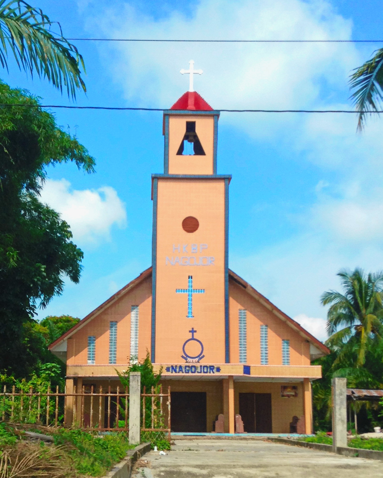 HKBP Nagojor, Church in Nagojor, Jawa Maraja Bah Jambi, Simalungun